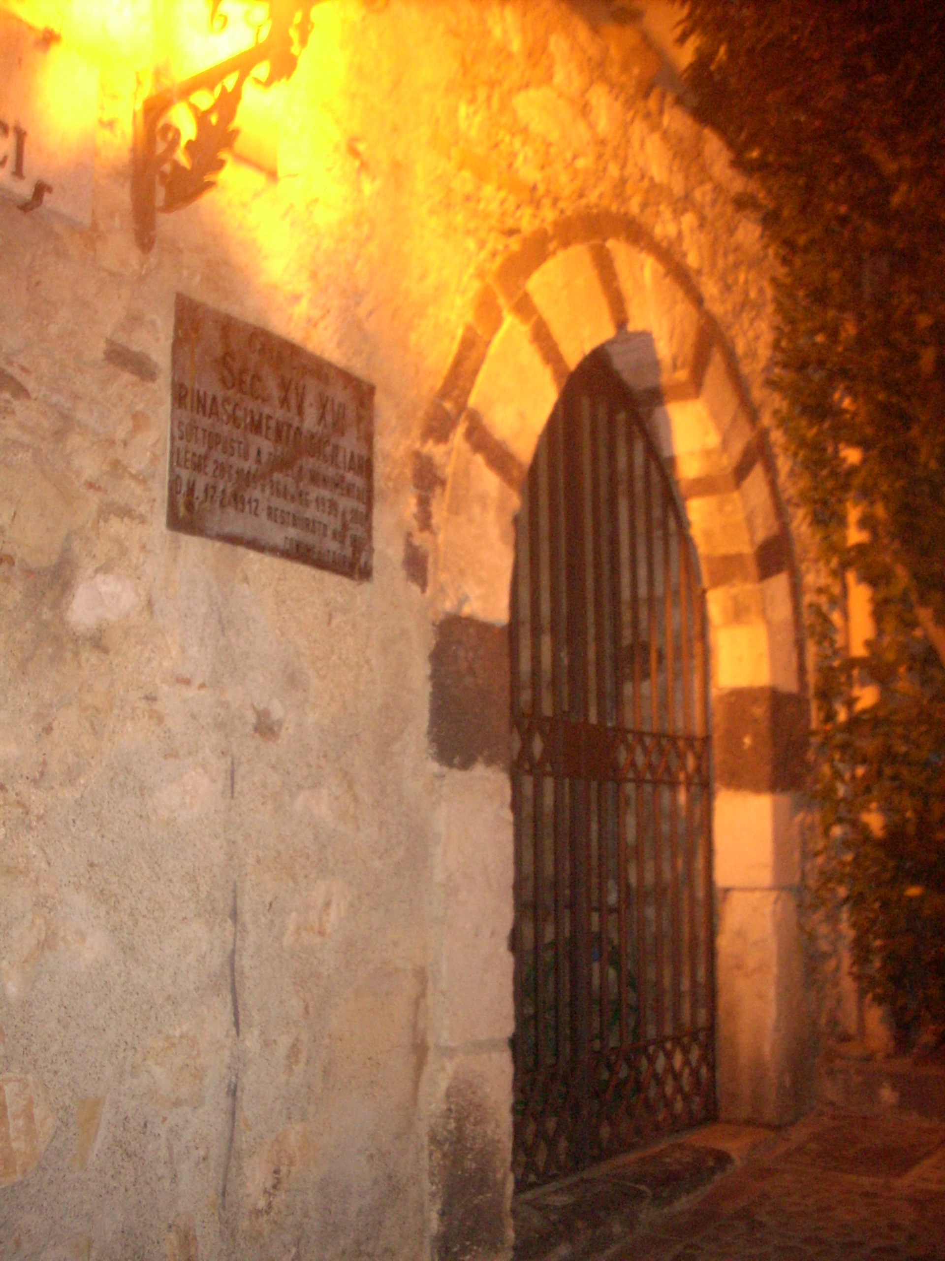 15th century house in Taormina, Sicily